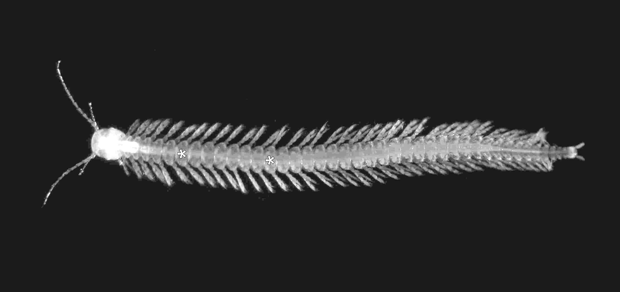 Photograph of a living specimen (Crustacea, Remipedia, Speleonectidae) from the Exuma Cays, Bahamas.